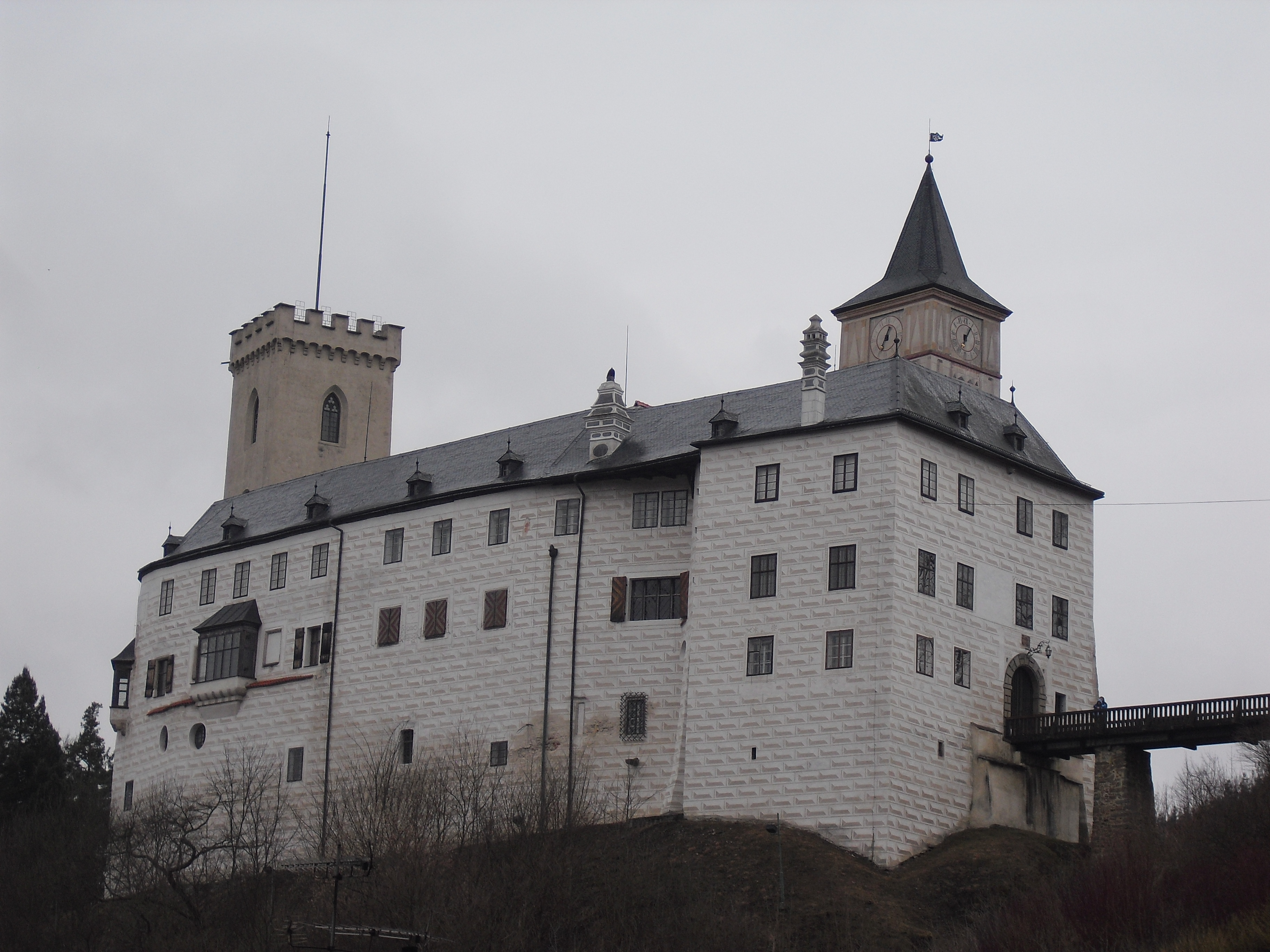 Castle Rozmberk